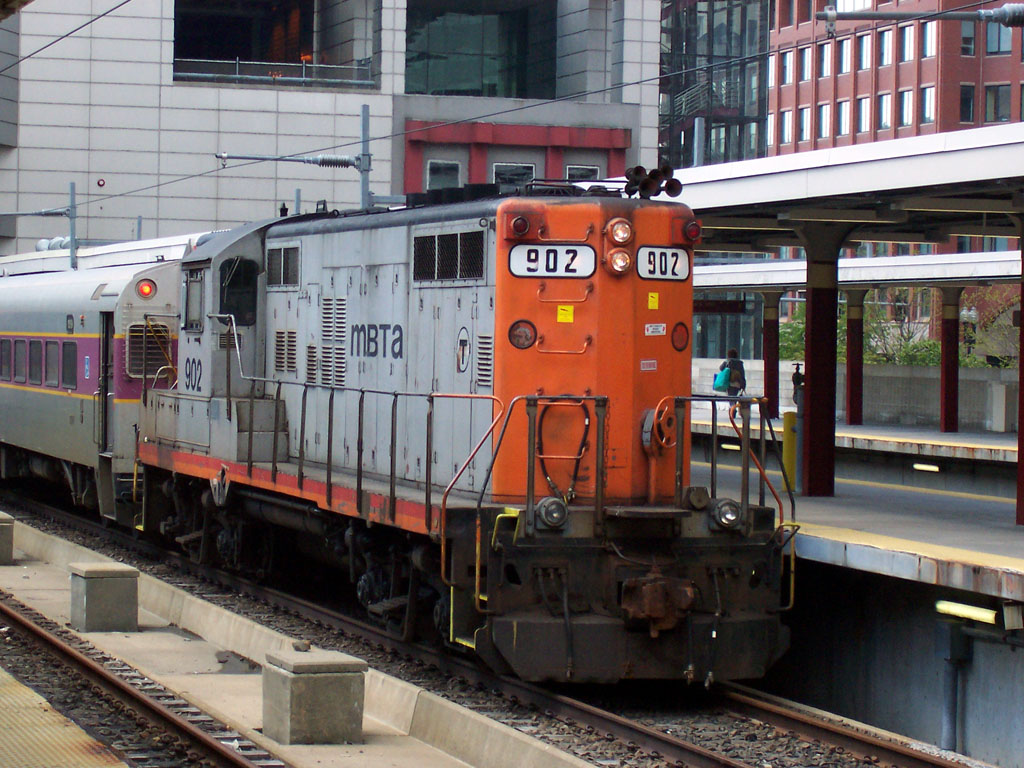 EMD GP10 locomotive 902 built in 1957 pulling a train into Boston South Station in SEMTA (Southeastern Michigan Transit Authority) colors, nearly 23 years after that agency ceased commuter rail operations.